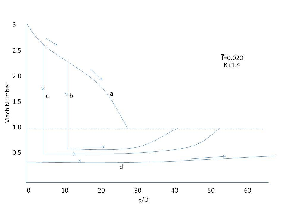 mach number v/s sd graph